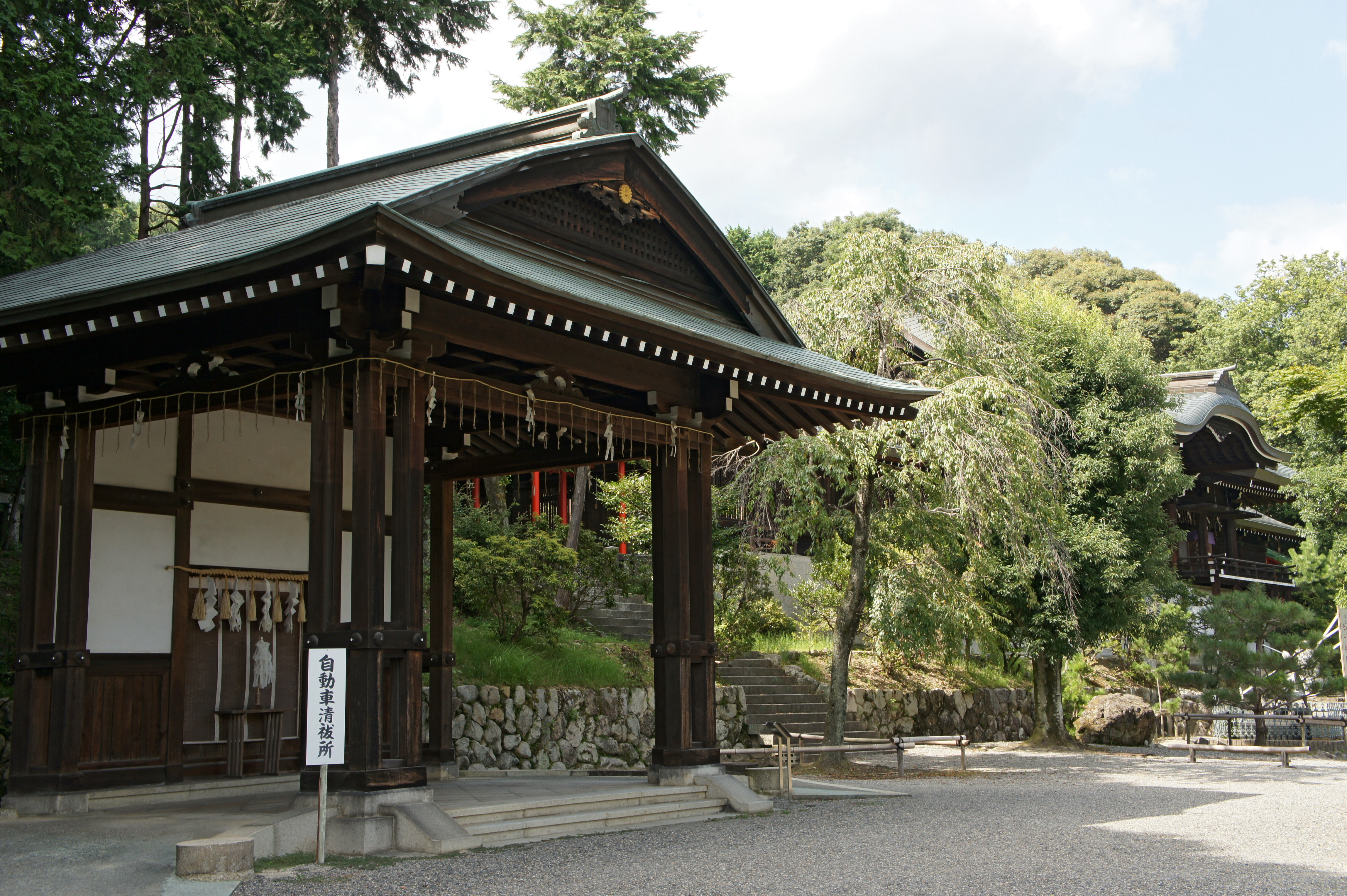 Oumi-jingu in Otsu, Shiga prefecture, Japan.